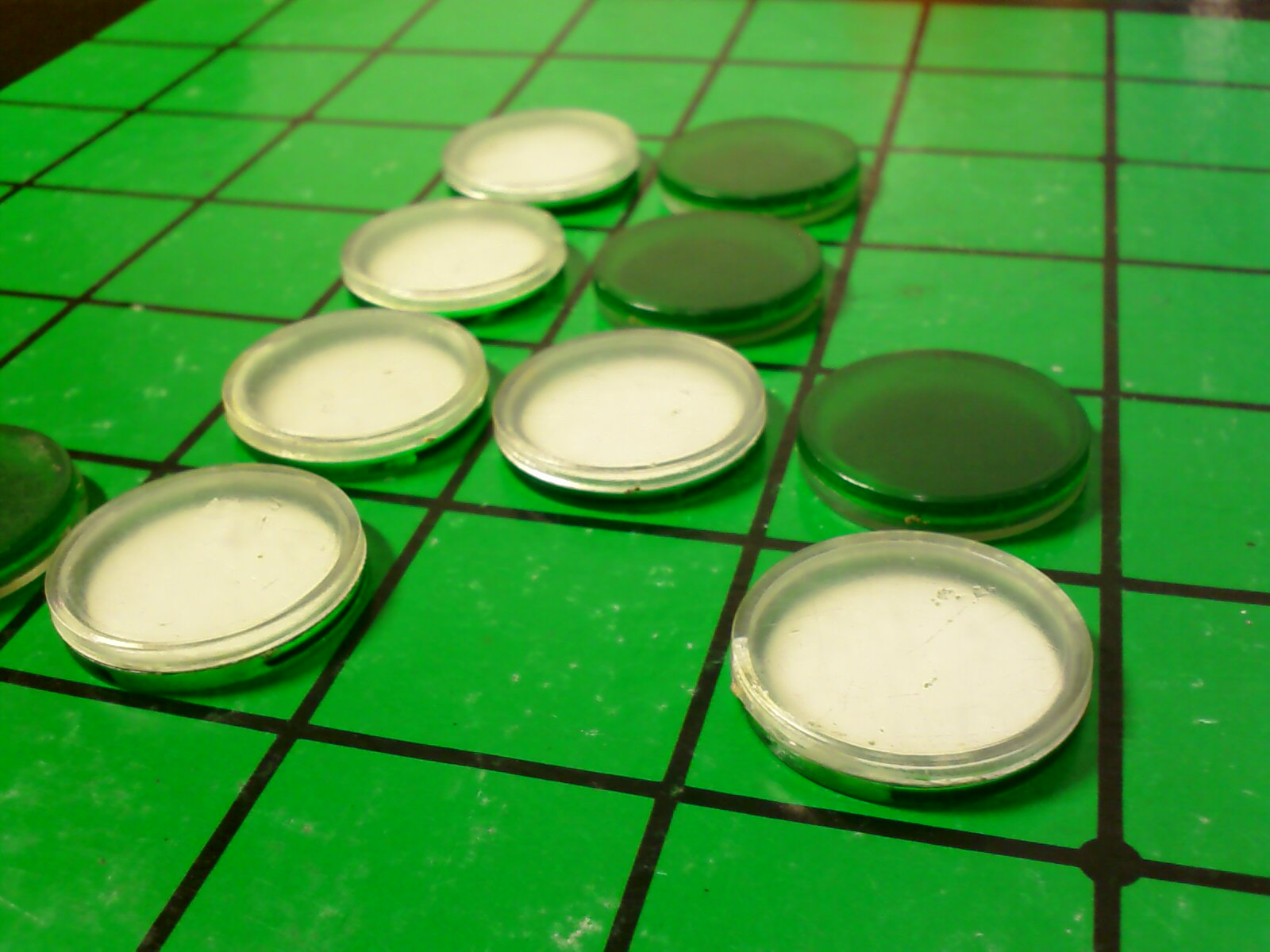 A game of Othello (Reversi) in-progress